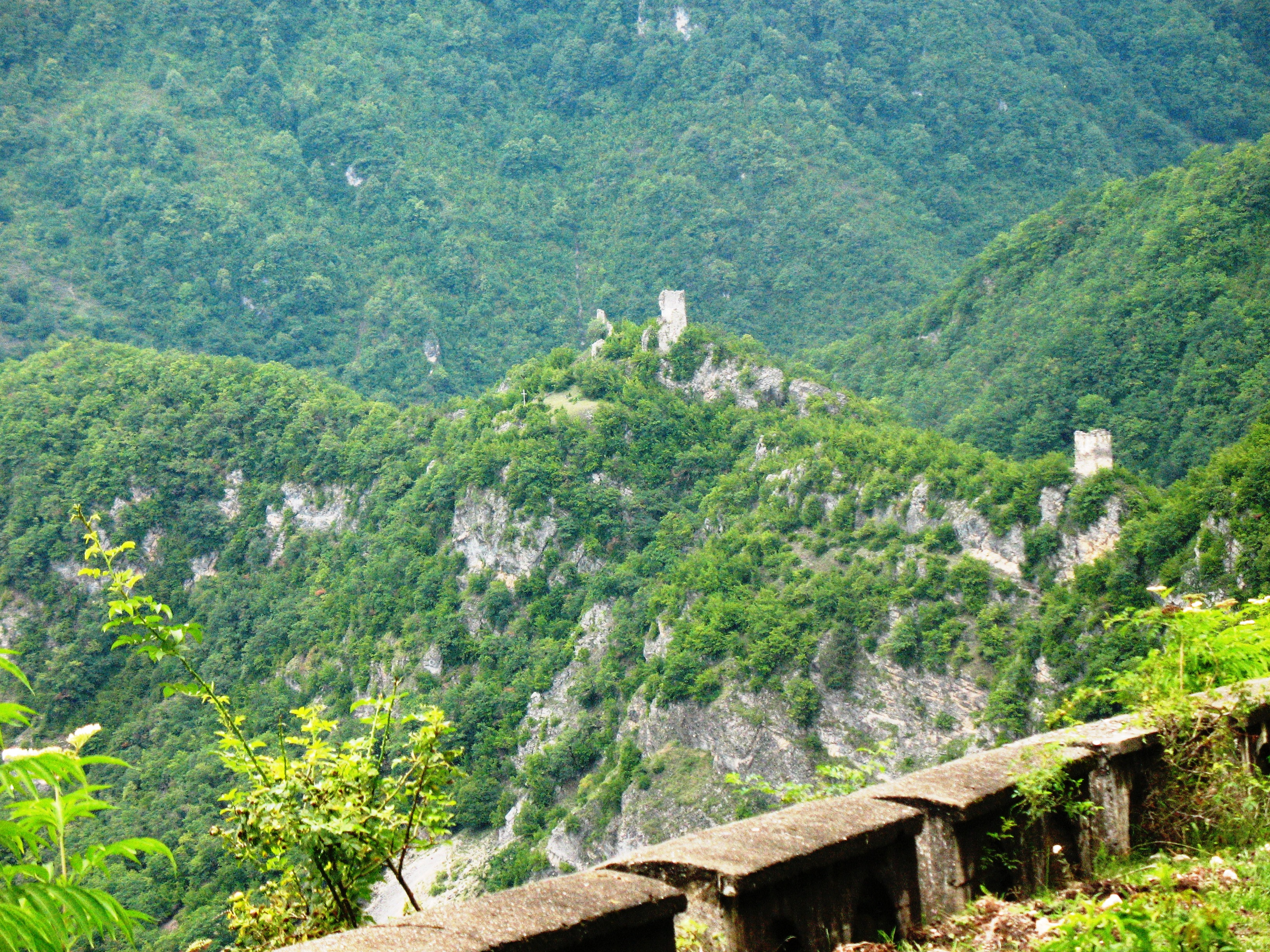 fortress near Tsageri